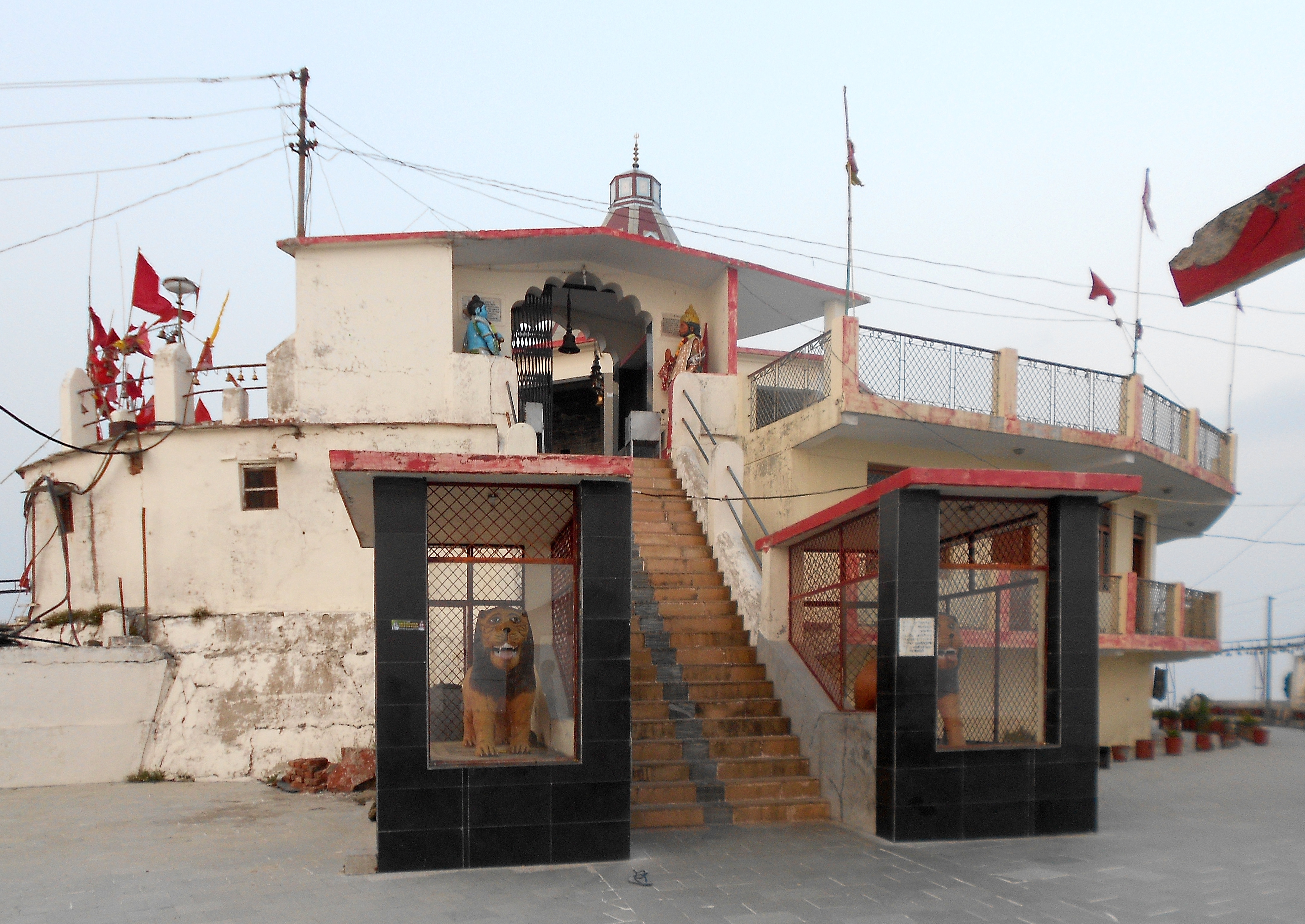 This photo is of entrnace of the Chandrabadni mandir